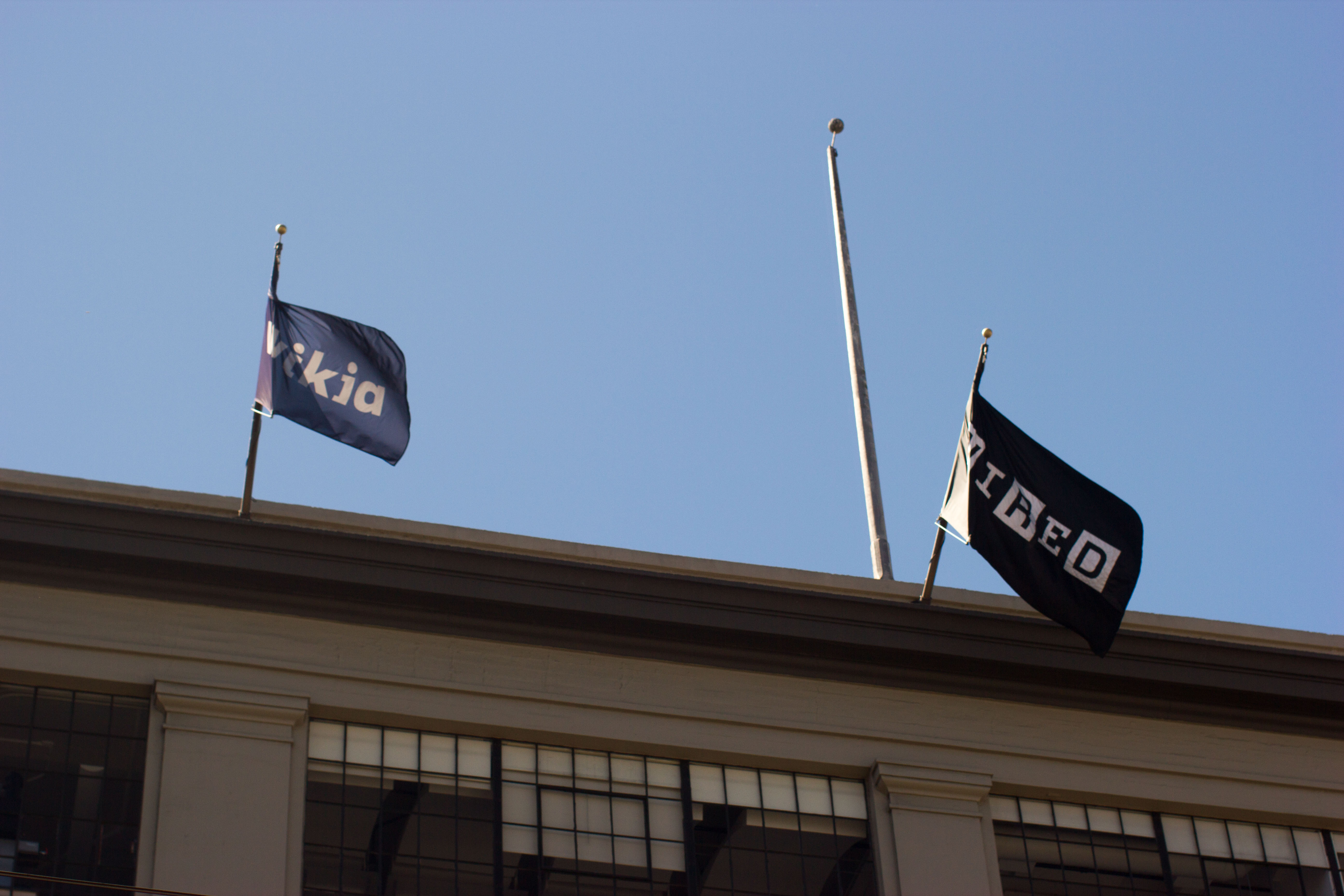 Wikia and Wired flags